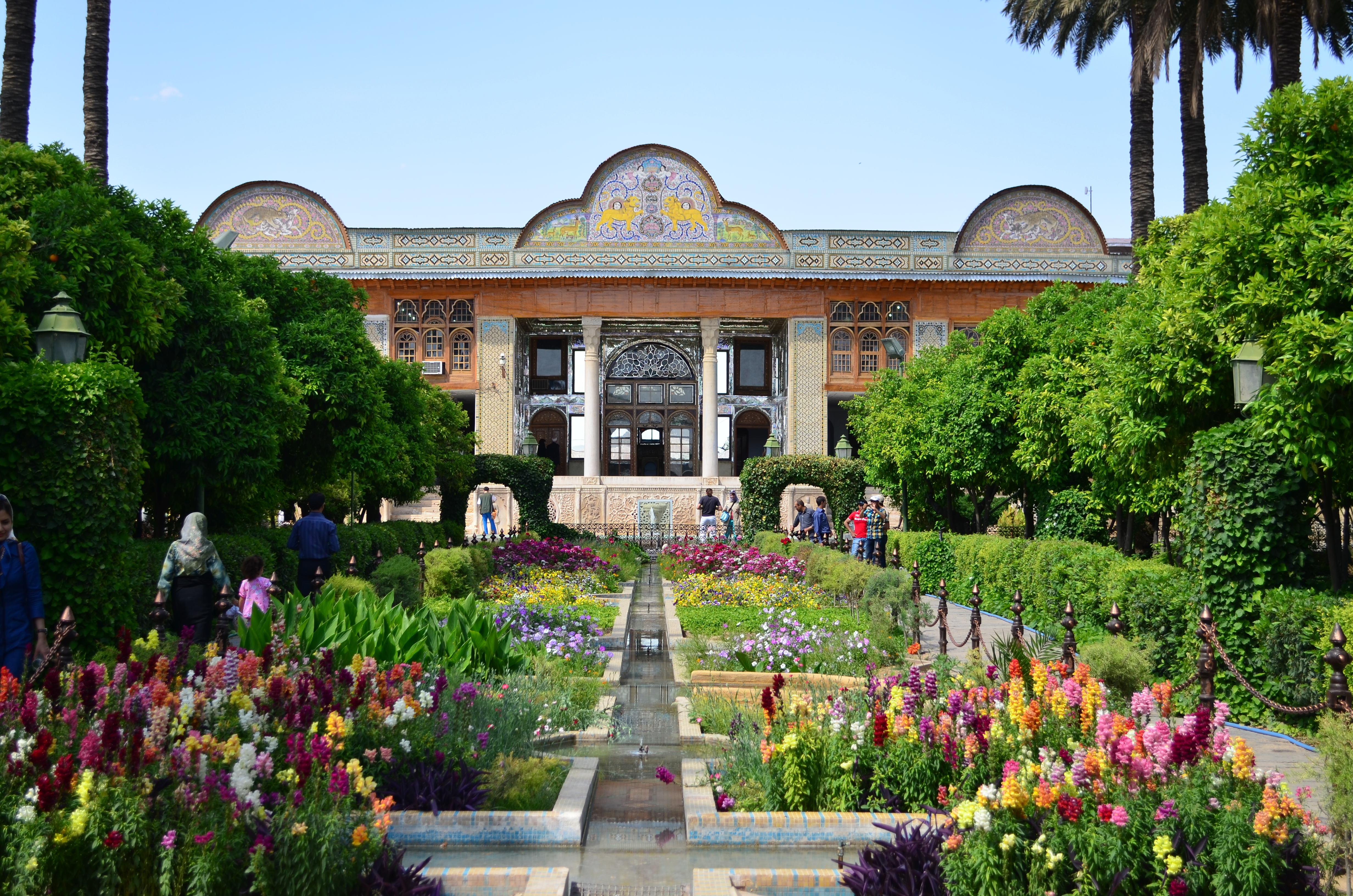 Qavam House